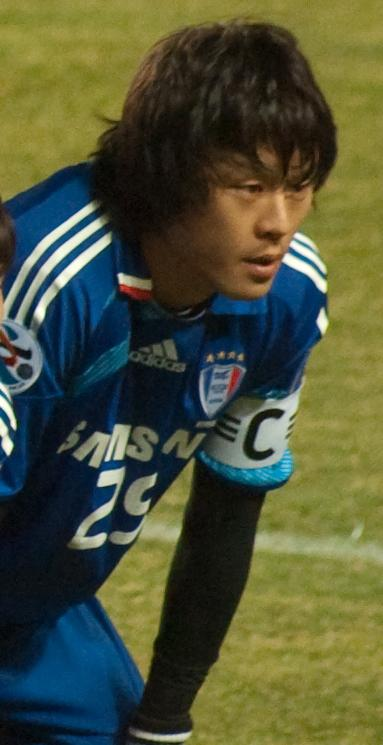 Kwak Hee-ju from Suwon Samsung Bluewings